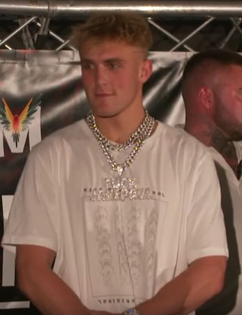 Jake Paul during the KSI vs Logan Paul weigh in